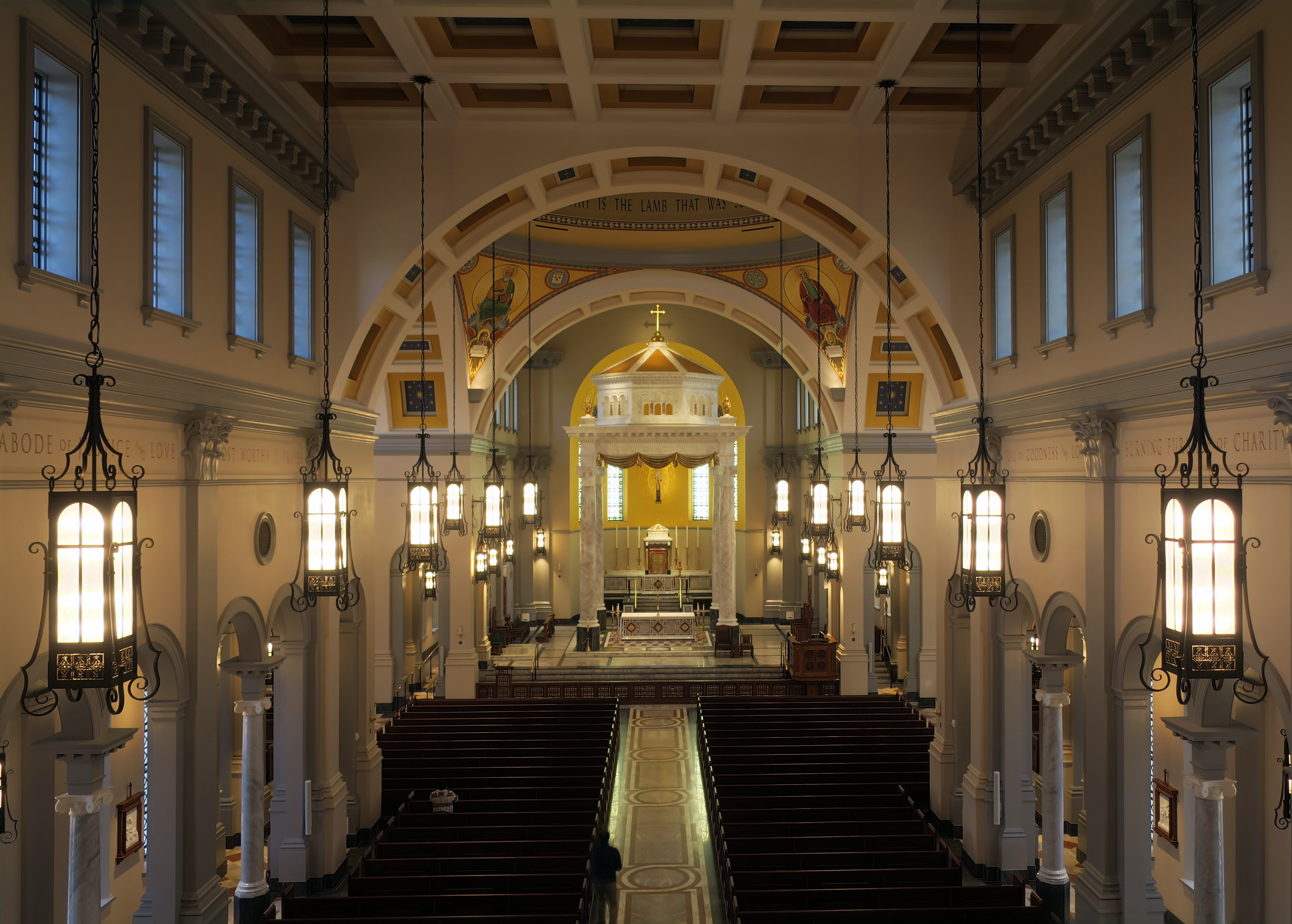 Cathedral of the Most Sacred Heart of Jesus (Knoxville, TN) - view from the loft